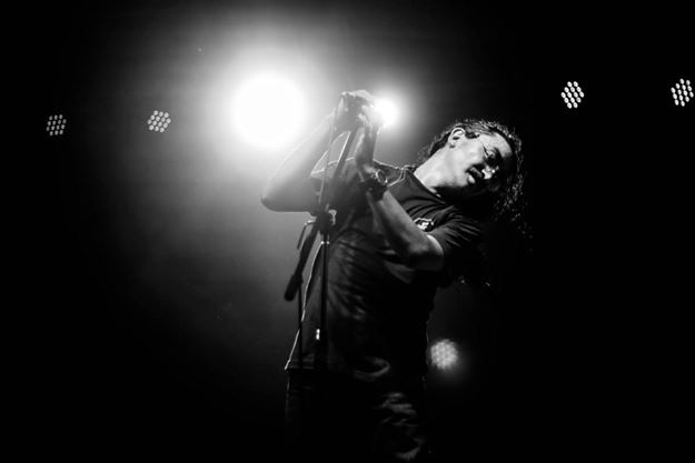 Amrit Gurung, the lead vocalist of Nepathya, performing at Simara, Nepal.